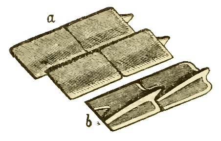 Ganoid scales of the Carboniferous fish, Amblypterus striatus. (a) shows the outer surface of four of the scales, and (b) shows the inner surface if two of the scales. Each of the rhomboidal ganoid scales of Amblypterus has a ridge on the inner surface which is produced at one end into a projecting peg which fits into a notch in the next scale, similar to the manner in which tiles are pegged together on the roof of a house.